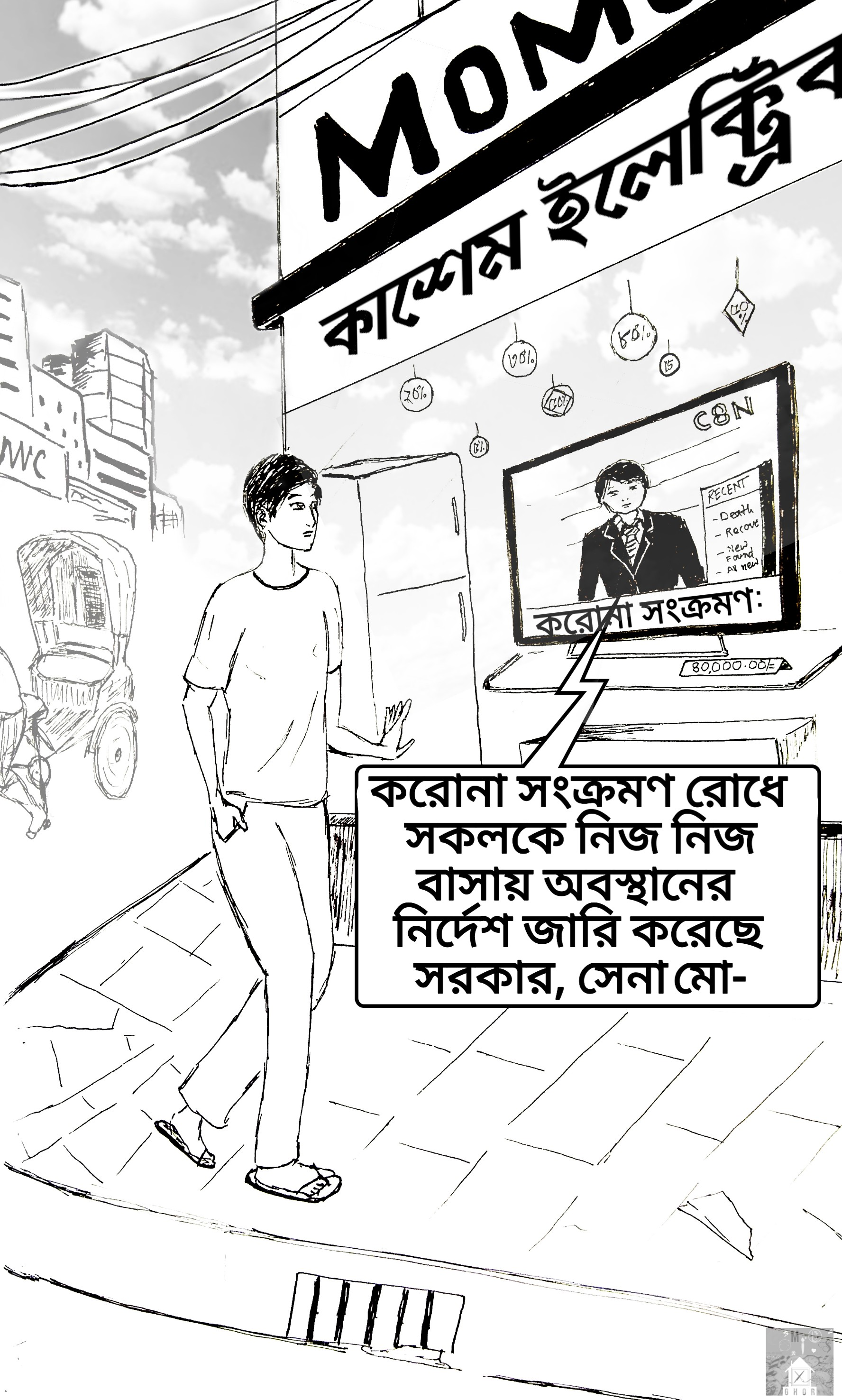 This file/drawing represents corona unaware people roaming around when the government orders them to stay at home. This gives message about what we do when we are careless and what we should not do being careless.